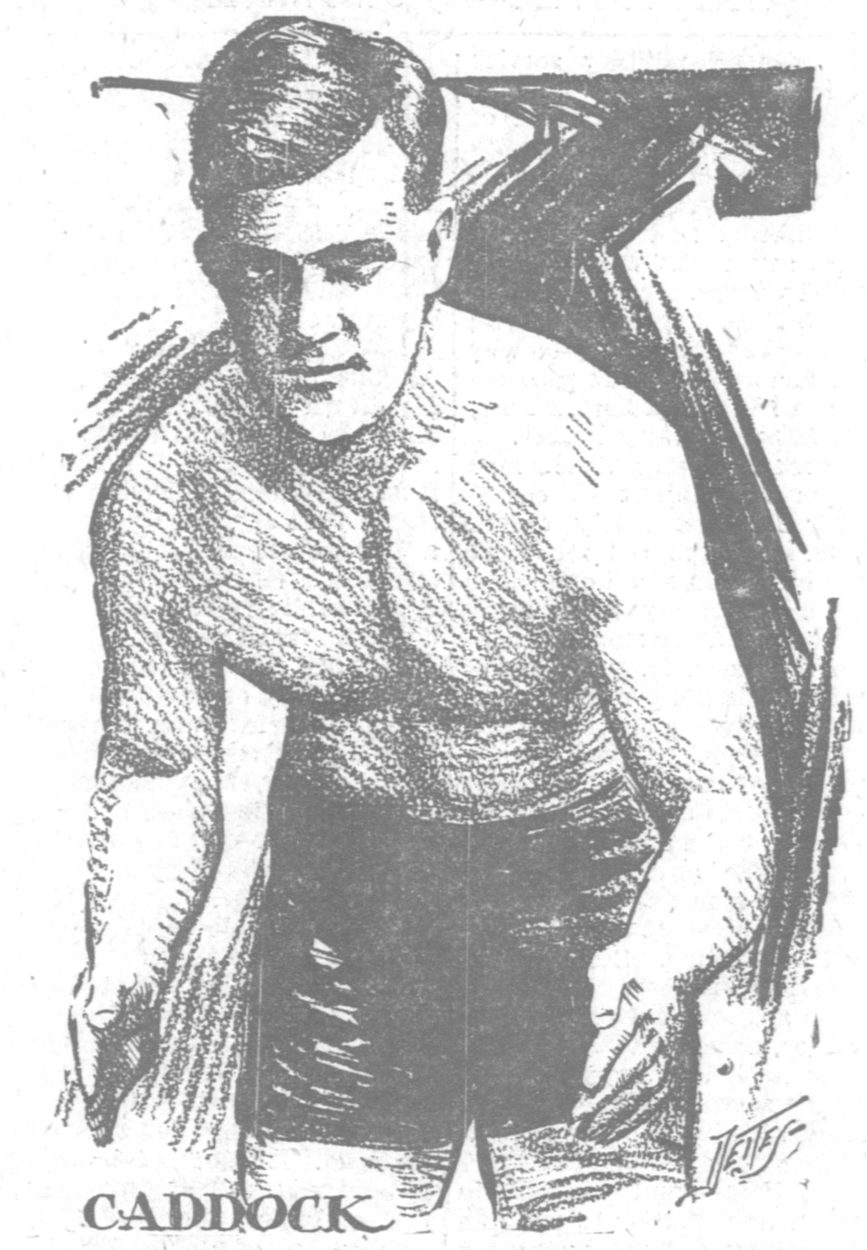 Professional wrestler Earl Caddock